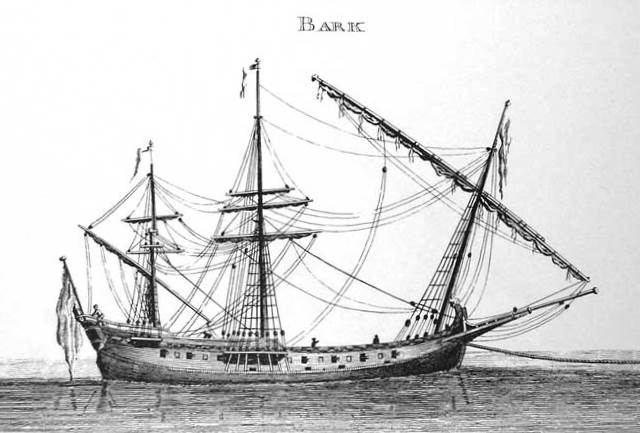 Bark (polacre) from "David Steel. The Elements and Practice of Rigging And Seamanship (1794)"